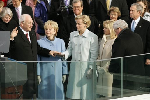 Vice President Dick Cheney is sworn in for a second term in office.